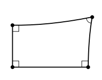 Lambert Quadrangle